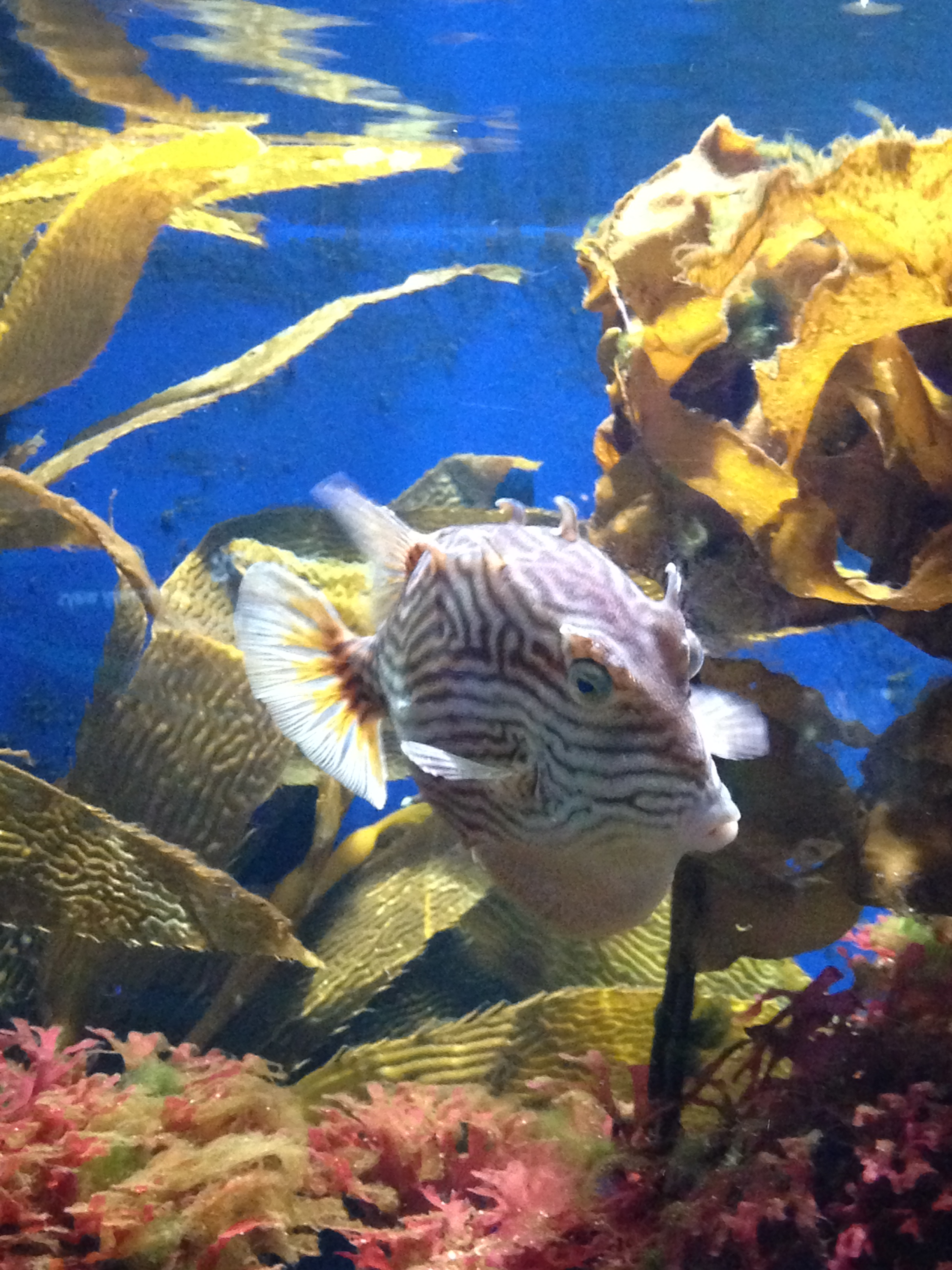 Shaw's Cowfish at the California Academy of Sciences